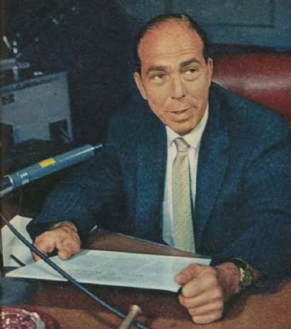 Photo of Martin Block at ABC Radio in 1957.